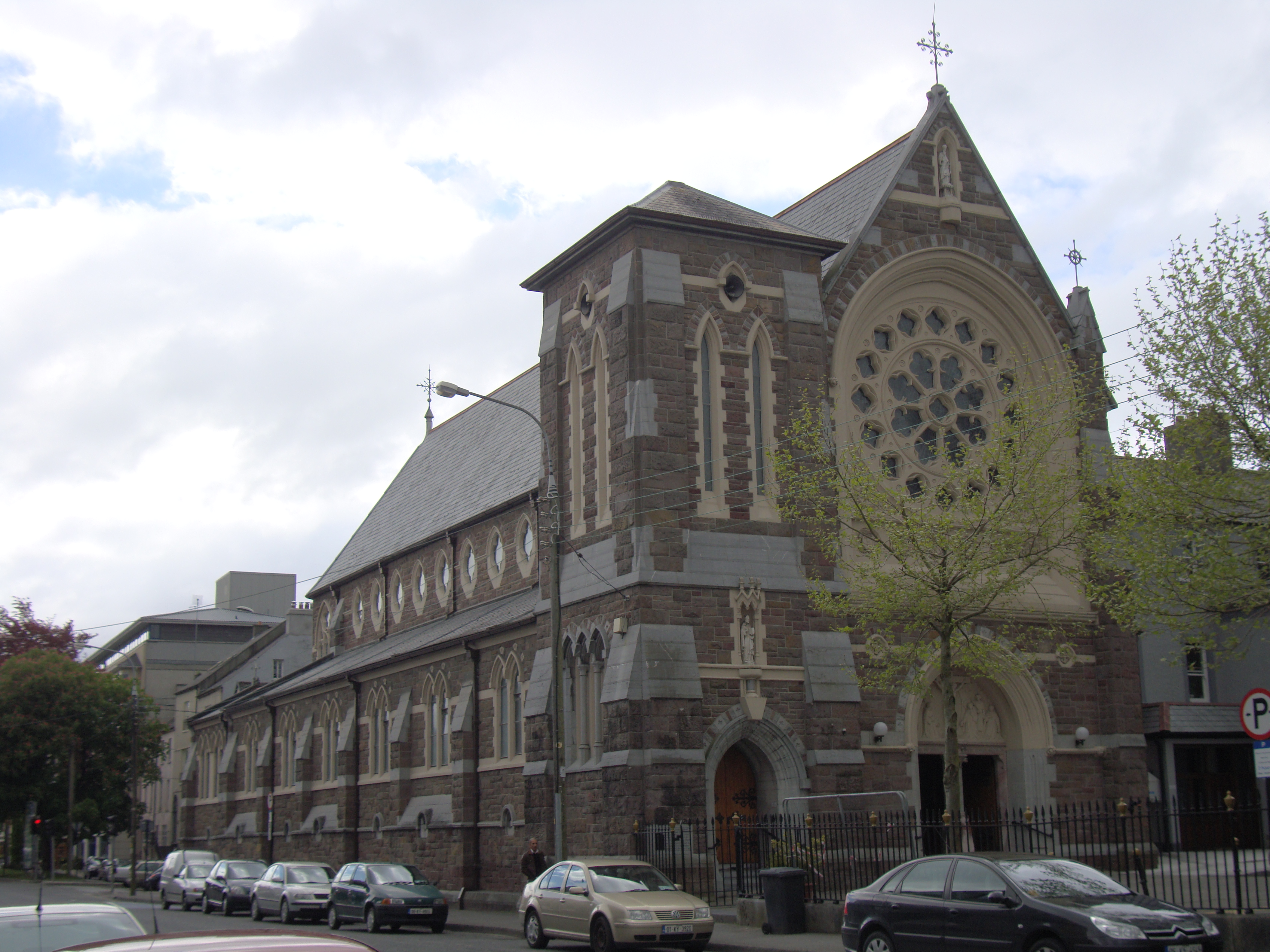 Photograph of Tralee Priory, co Kerry, Ireland